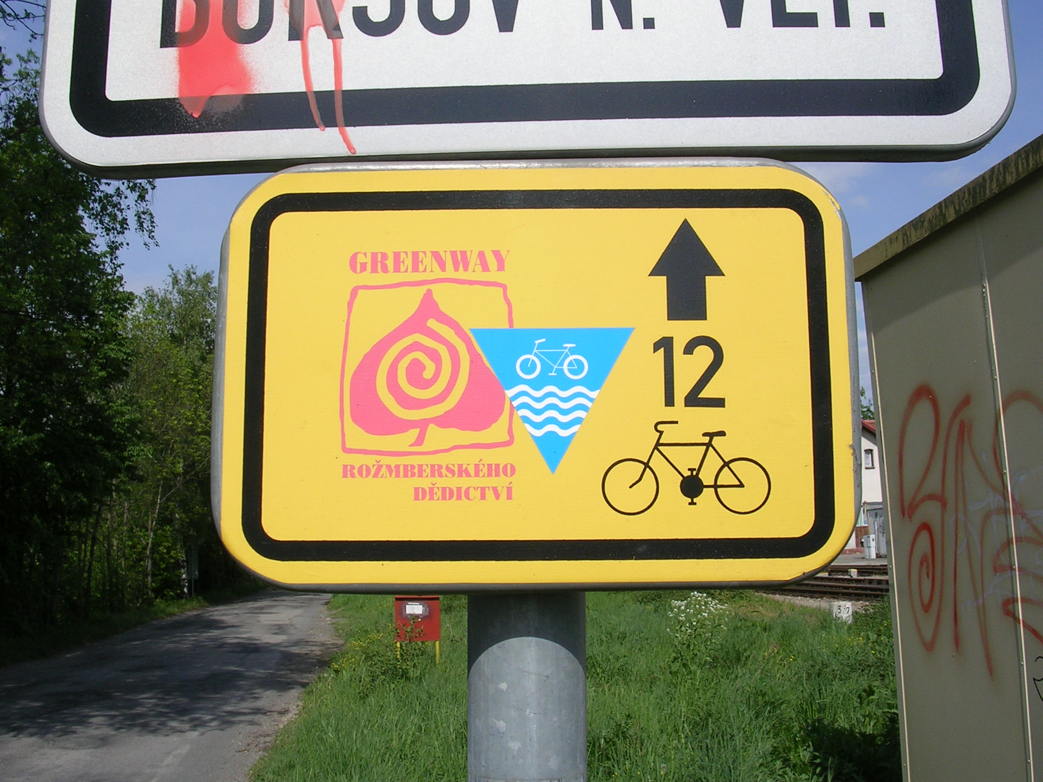 Boršov nad Vltavou, České Budějovice District, South Bohemian Region, the Czech Republic. A cycling route sign near the train station.